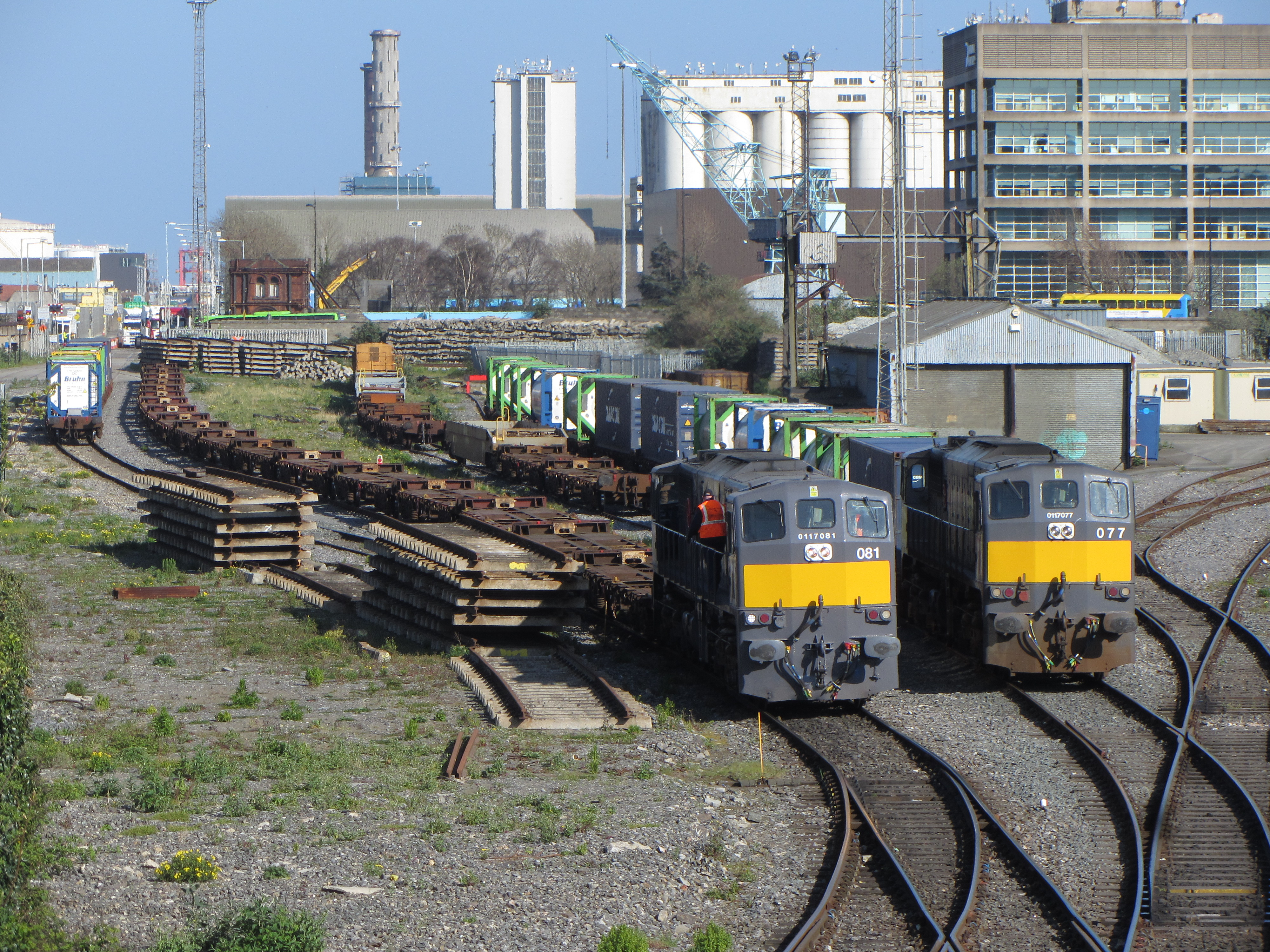 071 Class locomotives in North Wall Yard